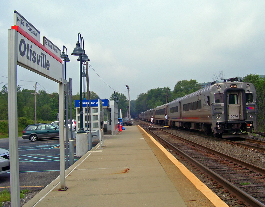 Photographed by Daniel Case 2006-07-21. Note that train is boarding on siding as opposed to mainline track since it has just exited the Otisville Tunnel and a westbound train is coming in in a few minutes, so both tracks must be used.